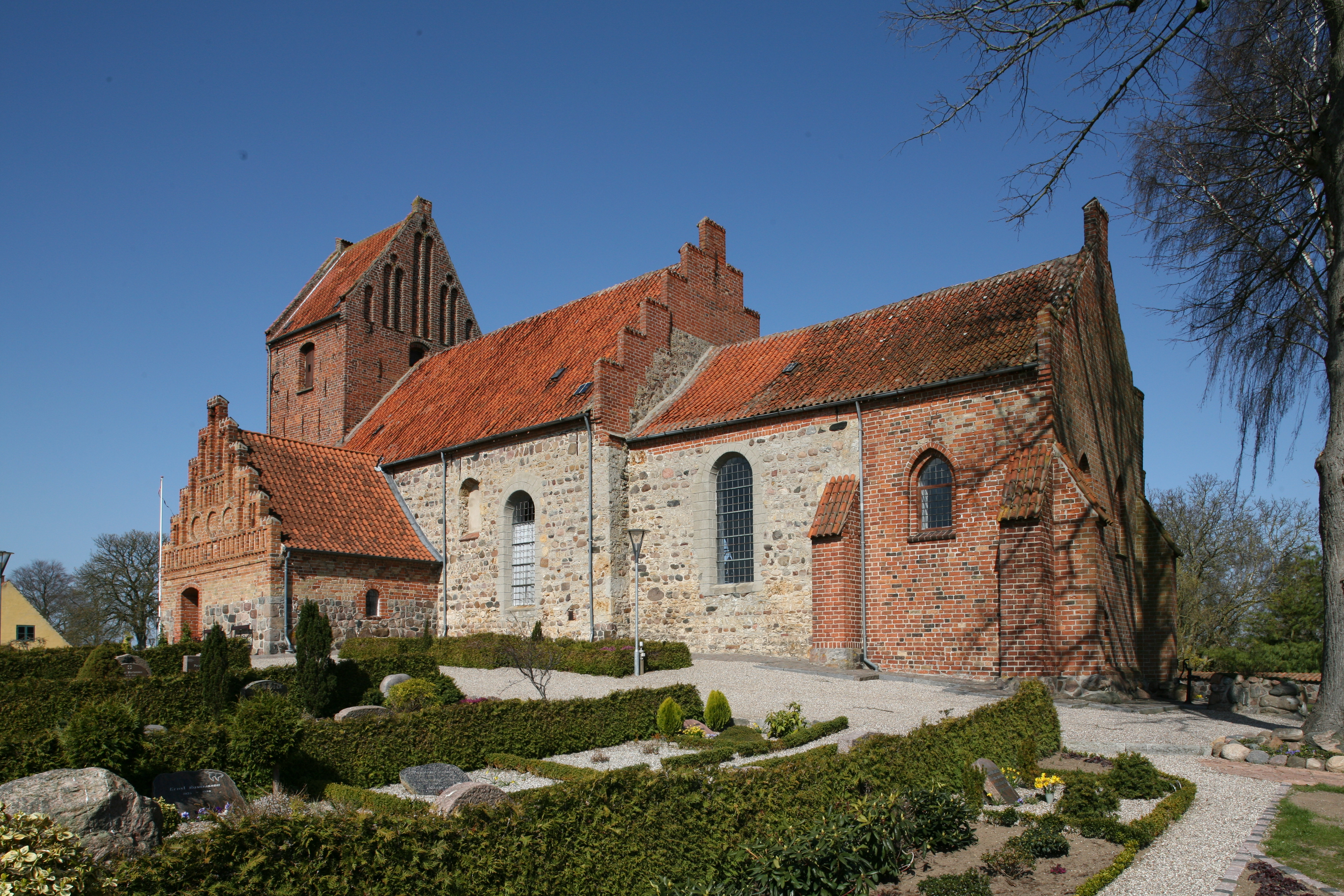 Eggeslevmagle church near Korsør, Denmark